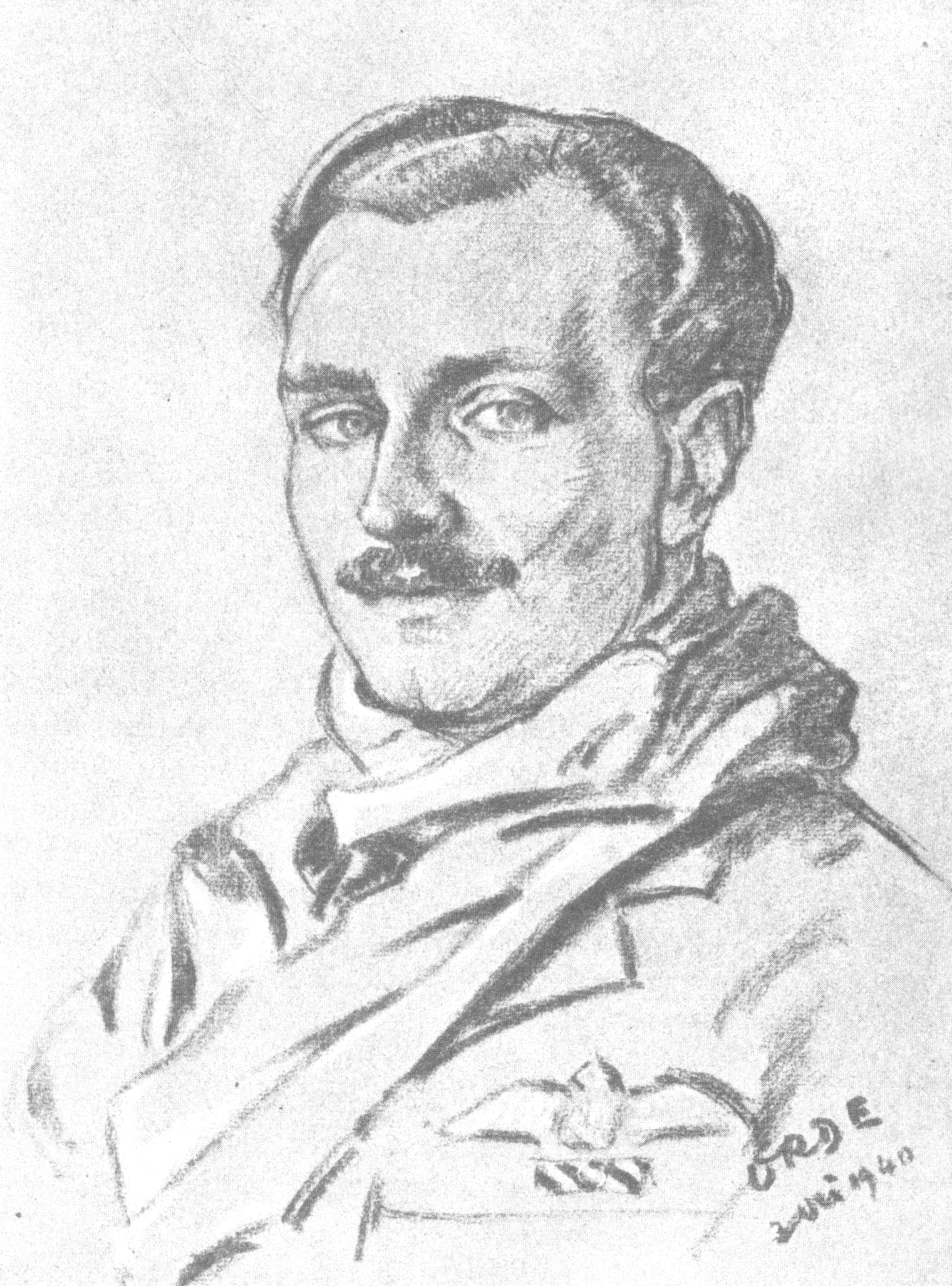 Archie McKellar portrait